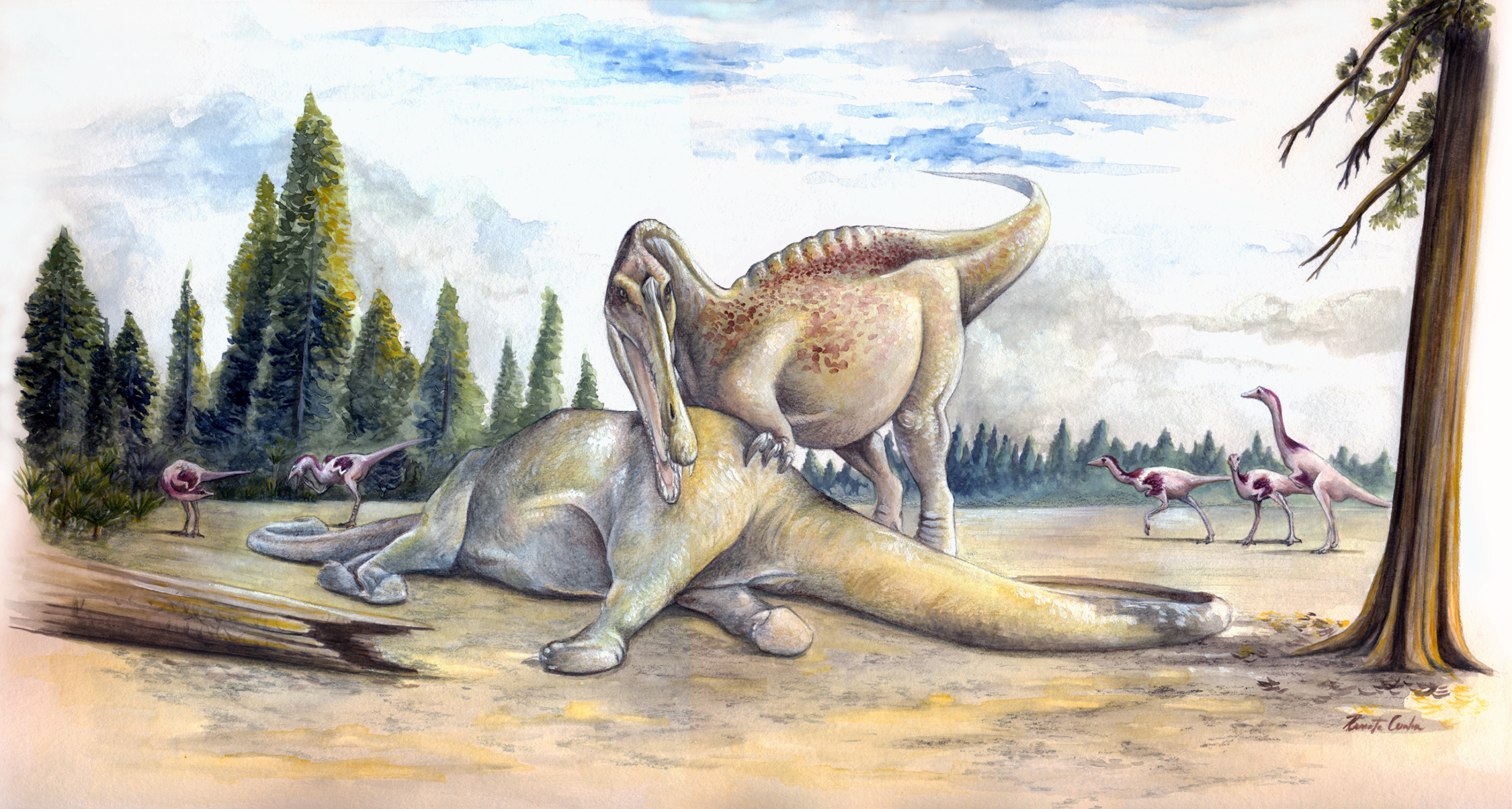 Reconstruction of the terrestrial paleoenvironmental setting of the Sao Khua Formation by Renata Cunha. In the center, a generalized spinosaurid feeds on a sauropod. This trophic relationship is hypothesized based on isolated tooth crowns found in association with a sauropod skeleton [67]. In the background, a small pack of the ornithomimosaur theropod Kinnareemimus. Both sauropods and ornithomimosaurs (as part of the “herbivorous” theropods) were found to be positively associated with terrestrial paleoenvironments by Butler and Barrett [15].